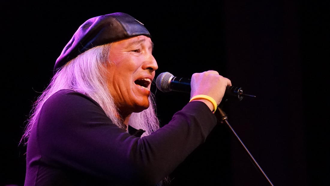 Performing at the Native American Music Awards in November 2014